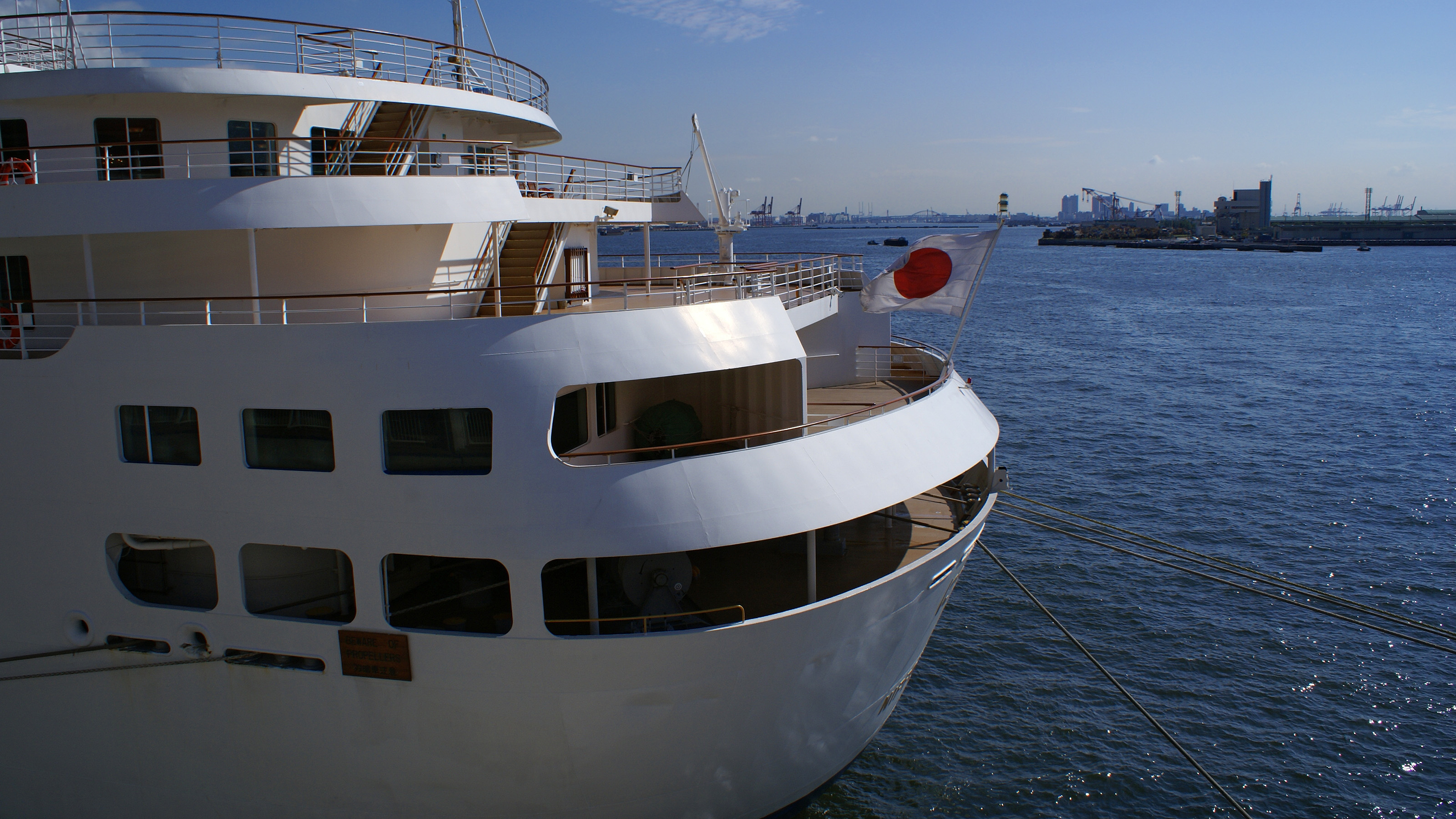 "Nipponmaru" who anchors at "Kobe Port Terminal" of the Kobe harbor ( Kobe, Hyogo, Japan)